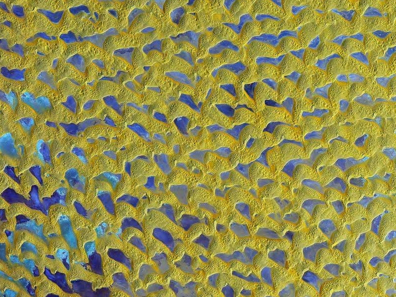 Sand dunes of the desert Rub' al Khali, Arabian Peninsula